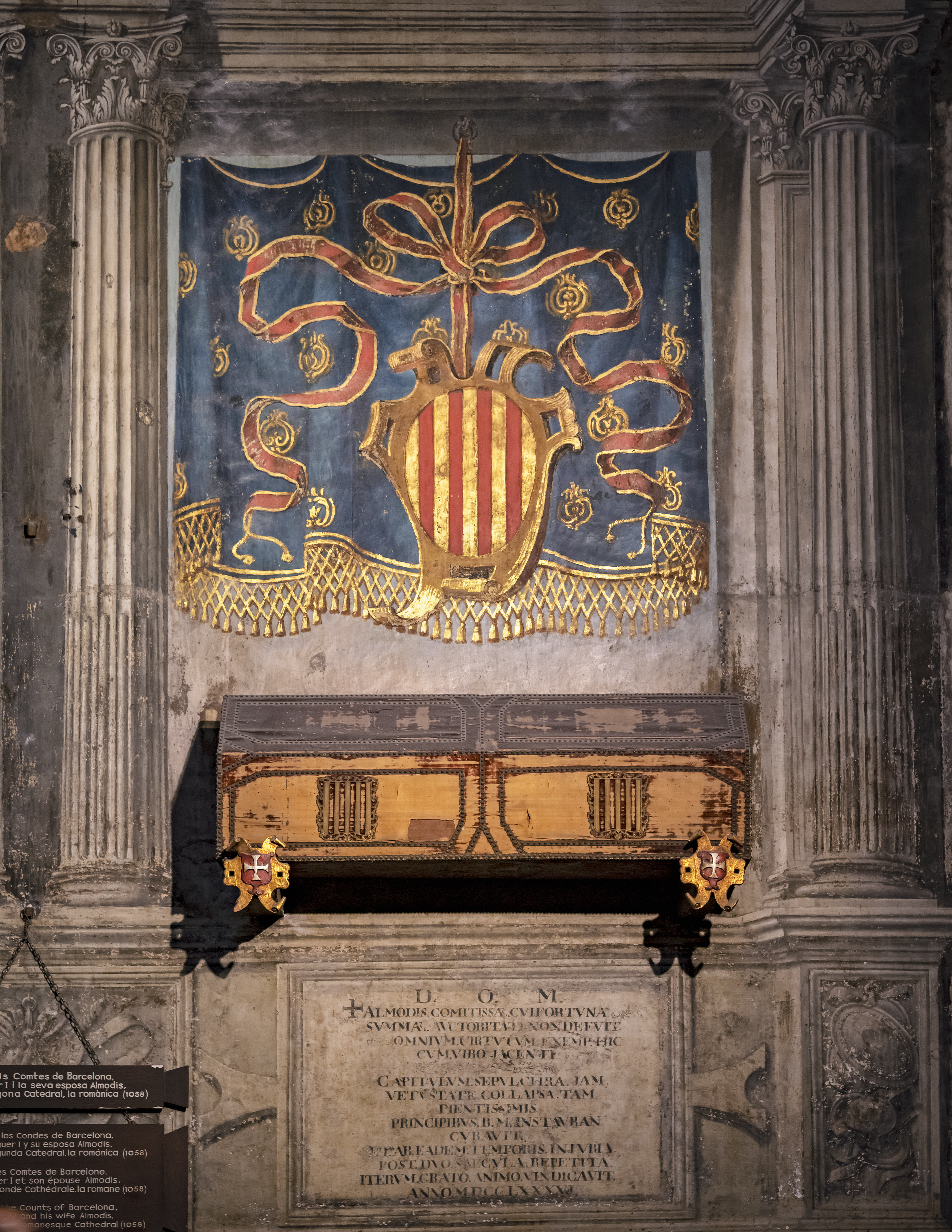 The Cathedral of the Holy Cross and Saint Eulalia in Barcelona. Next to the sacristy, located high on the wall, and on a background of 1545 paintings executed by the Portuguese painter Enrique Ferrandis or Fernandes, are the burial of Almodis de la Marca.